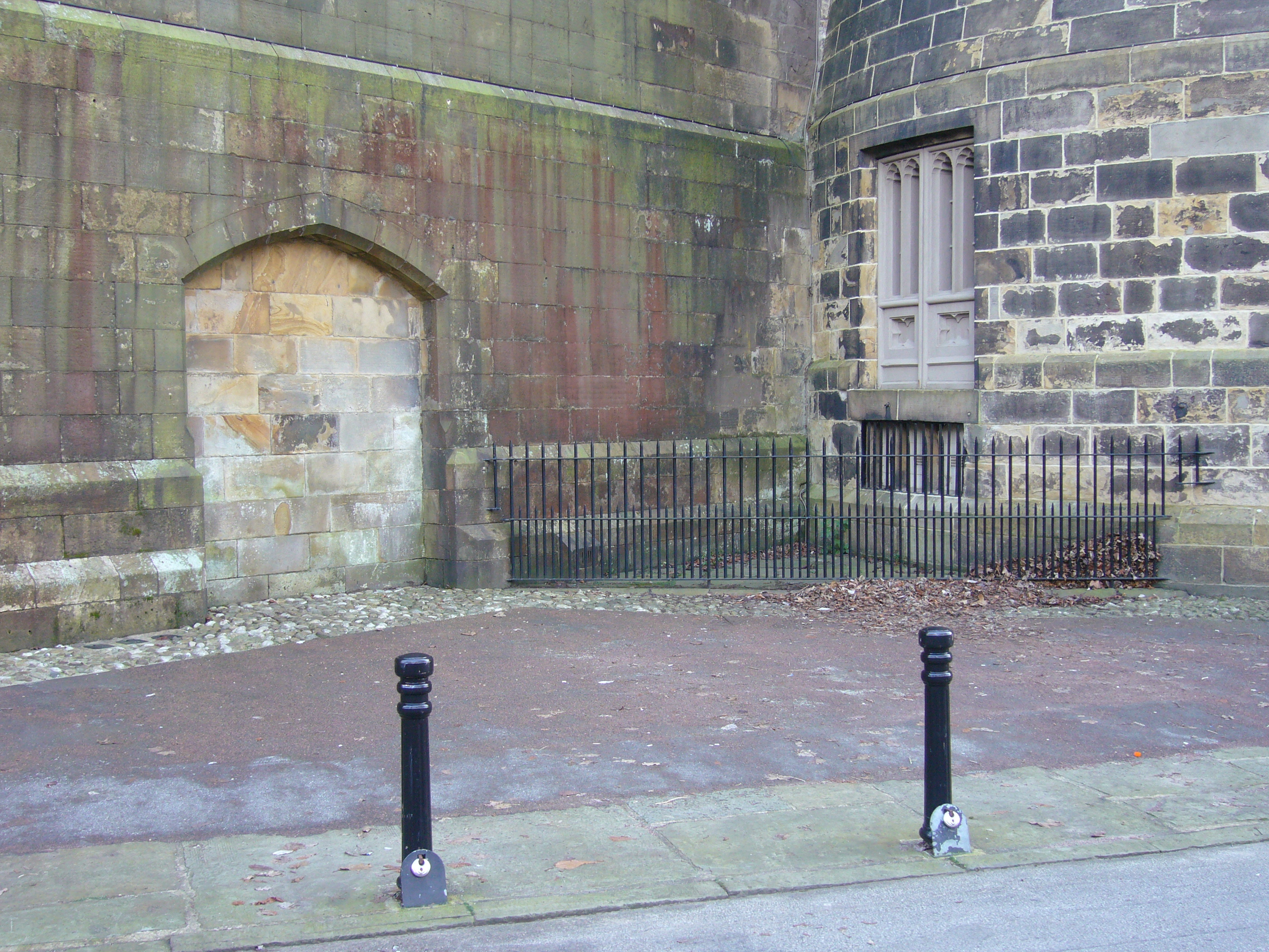 "Hanging Corner" outside Lancaster Castle, site of numerous public executions between the late 18th Century and 1865. The double-doors on the RHS hinged inwards into the "drop room", where condemned prisoners were pinioned immediately prior to execution. Condemned prisoners were led outside onto the wooden gallows platform, which was level with the bottom of the double-doors. The iron railings and bollards are modern additions made in the 20th Century.